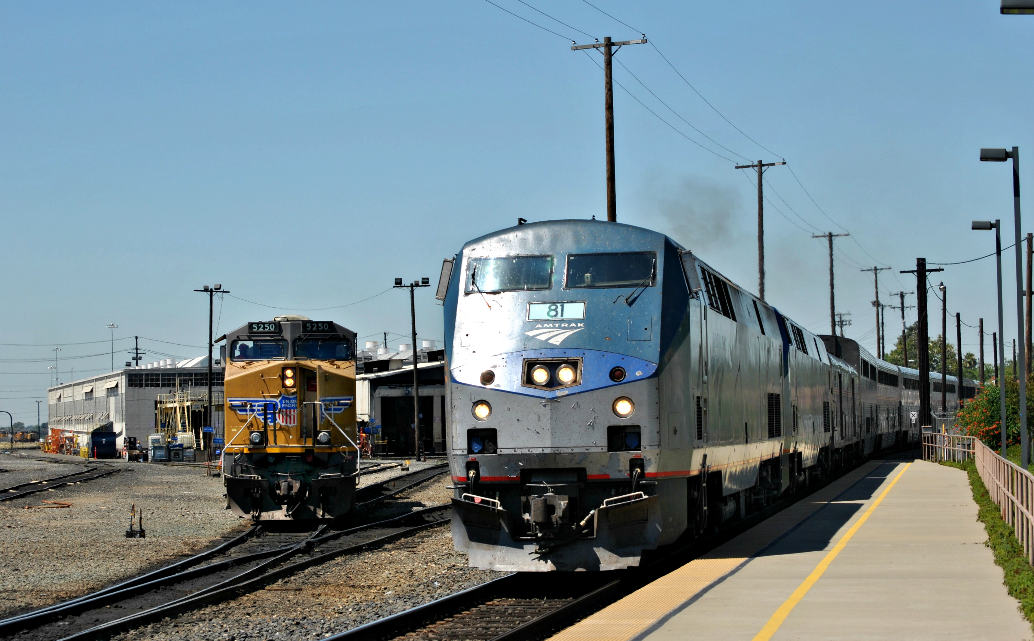 Here comes my ride The Eastbound Zephyr glides into Roseville station This was a good train as you could see through the window at the front of the first passenger car out over the top of the locomotives which gave some fairly unusual photo opp's.. Below are some shots of the station